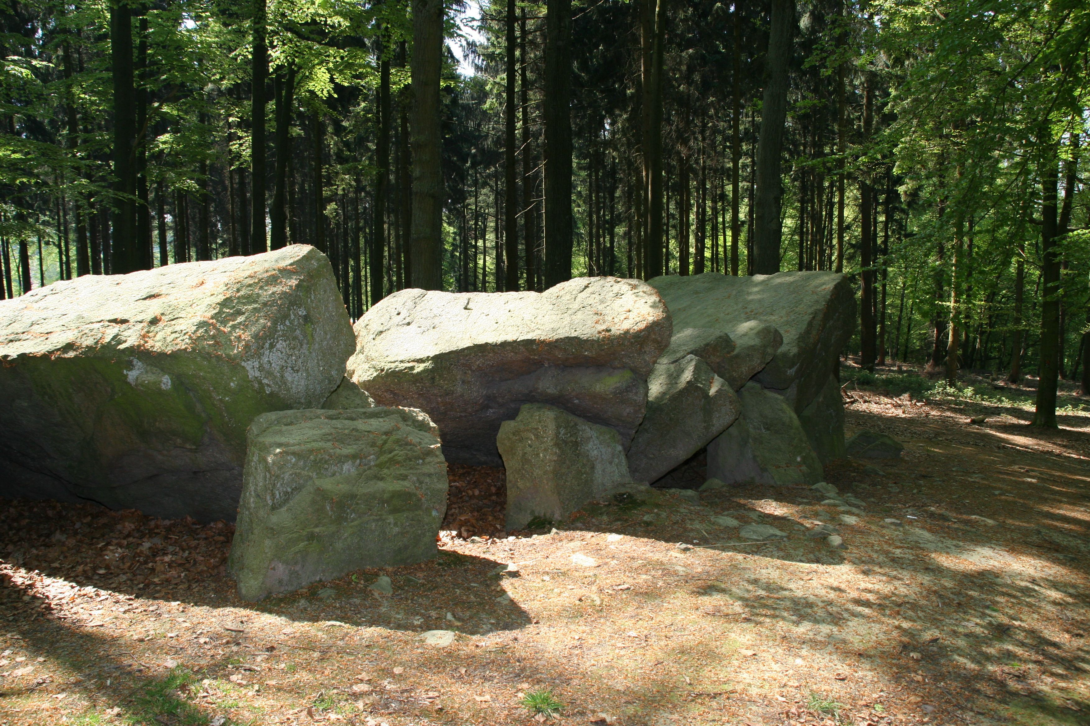 Osnabrück: megalithic chambered tomb "Karlsteine im Hone"